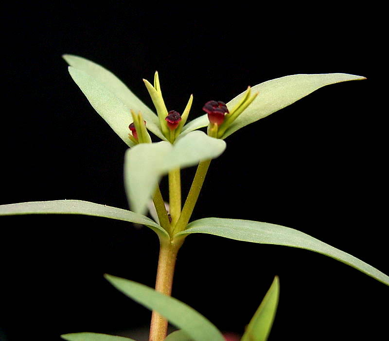 Euphorbia thinophila